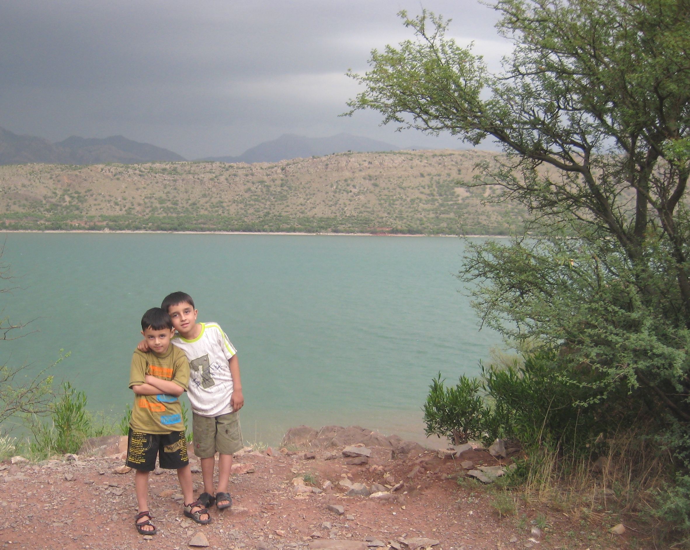 Tanda lake, Kohat, Pakistan